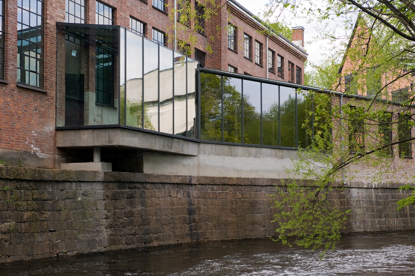 Dansens Hus, Akerselva